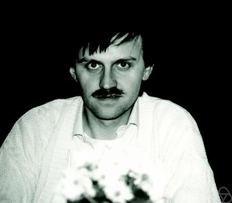 Karl-Heinz Borgwardt, mathematician, Oberwolfach 1971